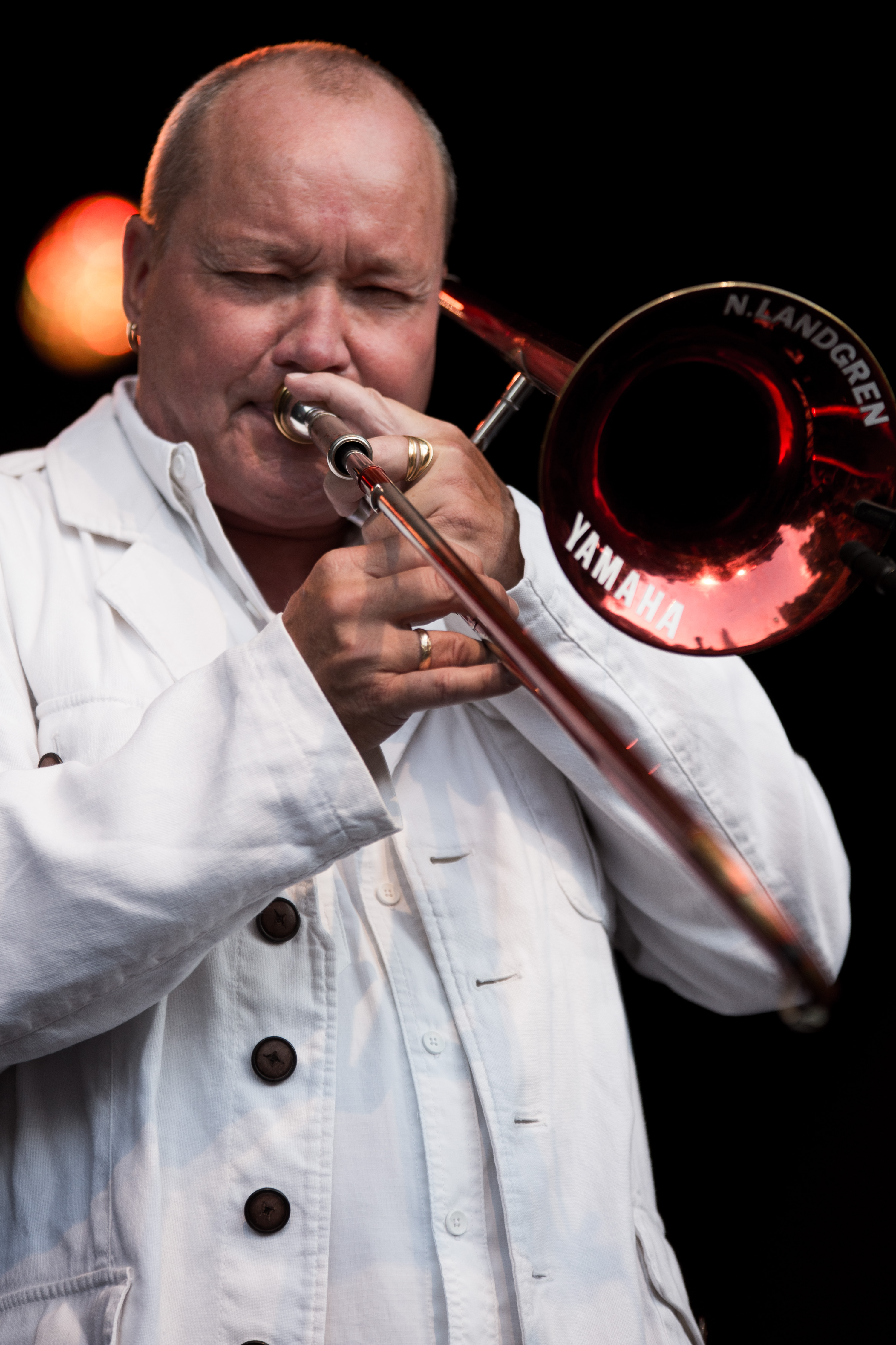 Nils Landgren Funk Unit, live at Kulturarena, Jena/Germany, July 16th, 2014. Personality rights warning Although this work is freely licensed or in the public domain, the person(s) shown may have rights that legally restrict certain re-uses unless those depicted consent to such uses. In these cases, a model release or other evidence of consent could protect you from infringement claims.